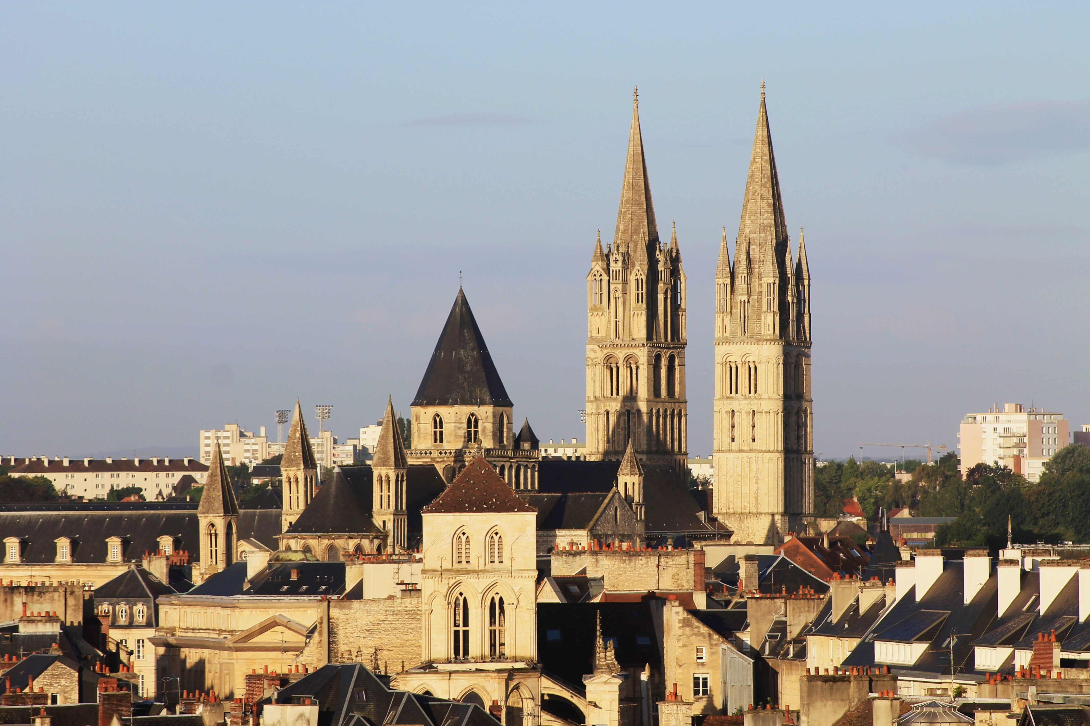 View of church steeples of Caen (Calvados / France)